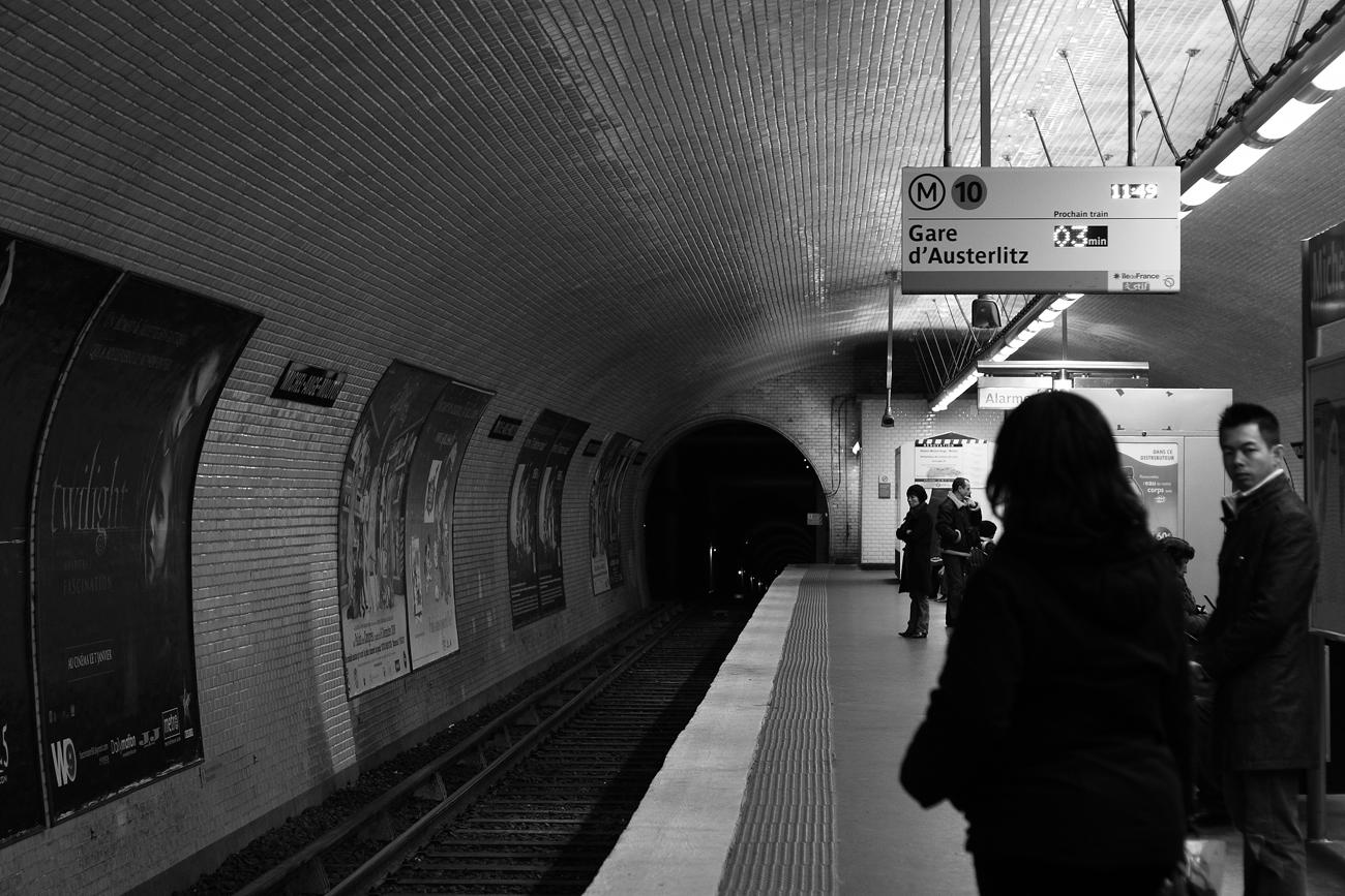 Michel-Ange – Molitor station on the line 10 of Paris Métro